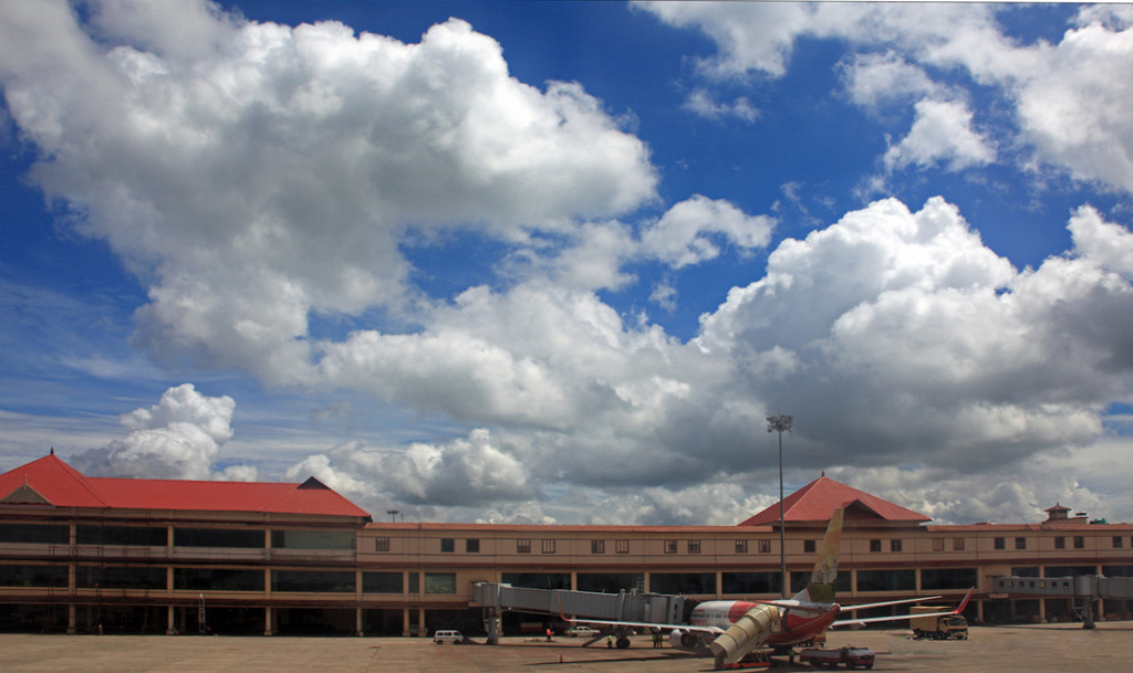 Airindia express aircraft at cochin airport